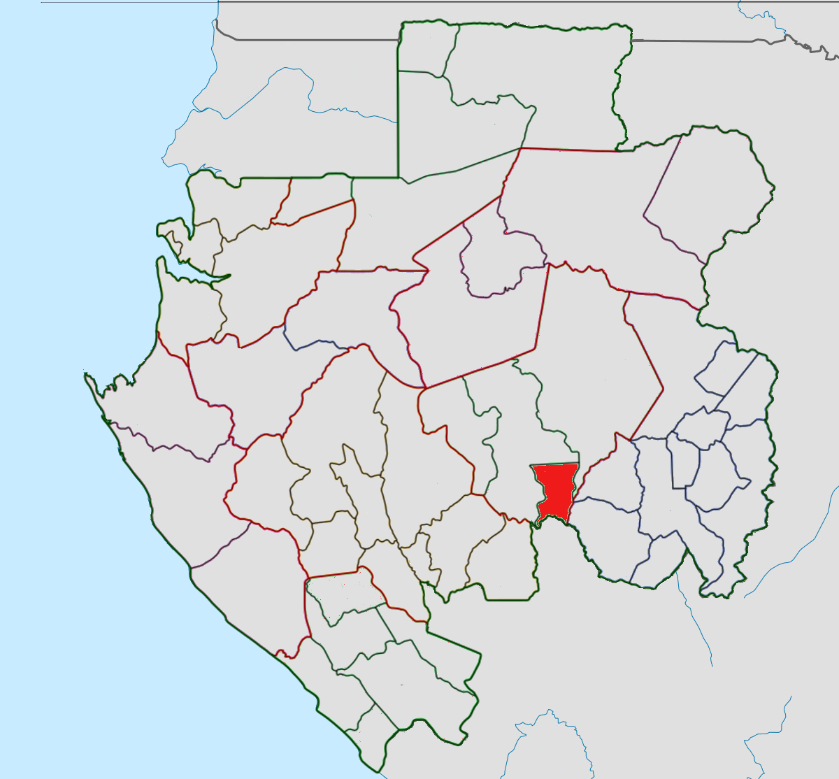 map of lombo-bouenguidi